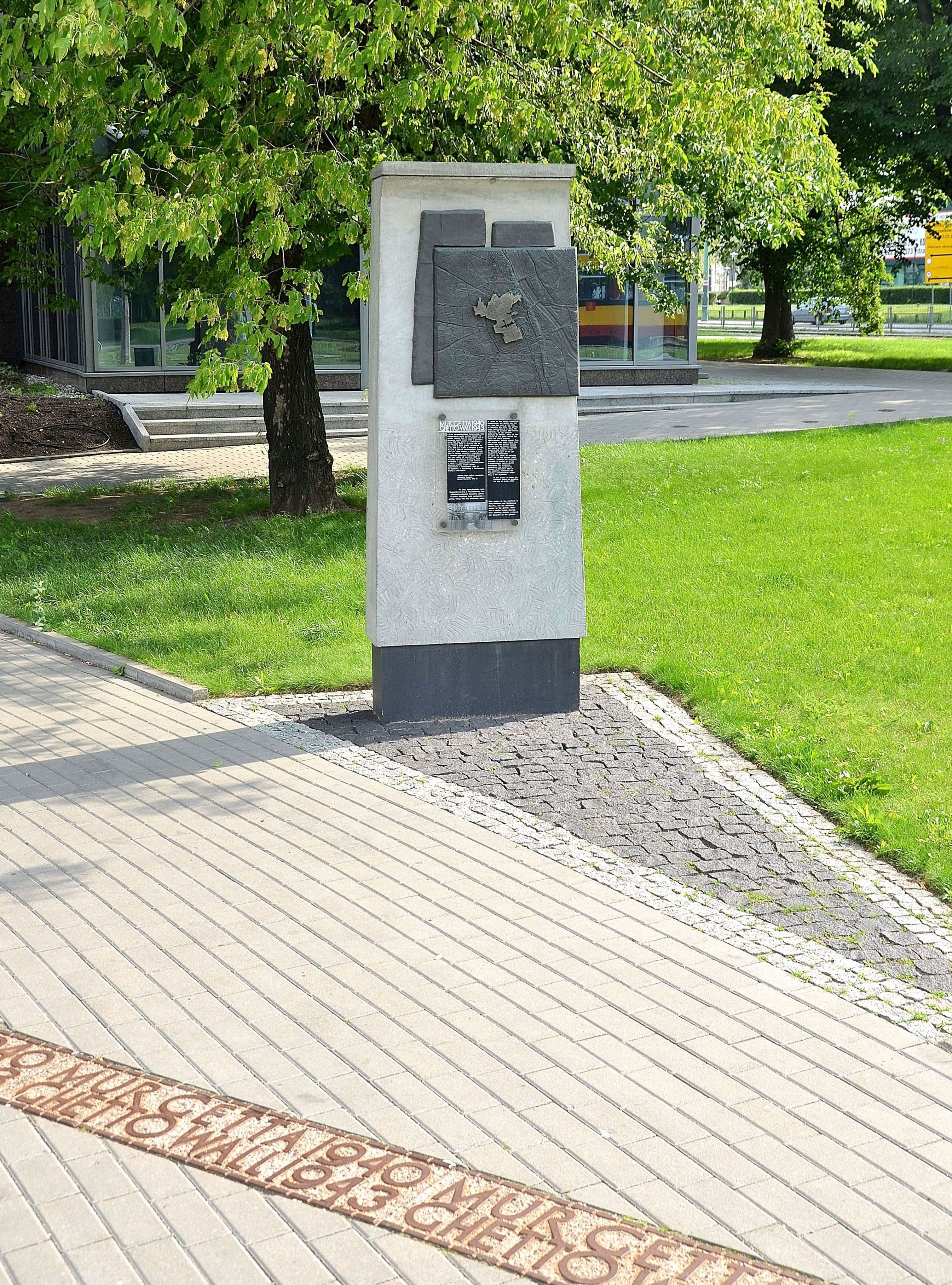 A marker of the Warsaw Ghetto borders at the intersection of Bonifraterska and Międzyparkowa Streets